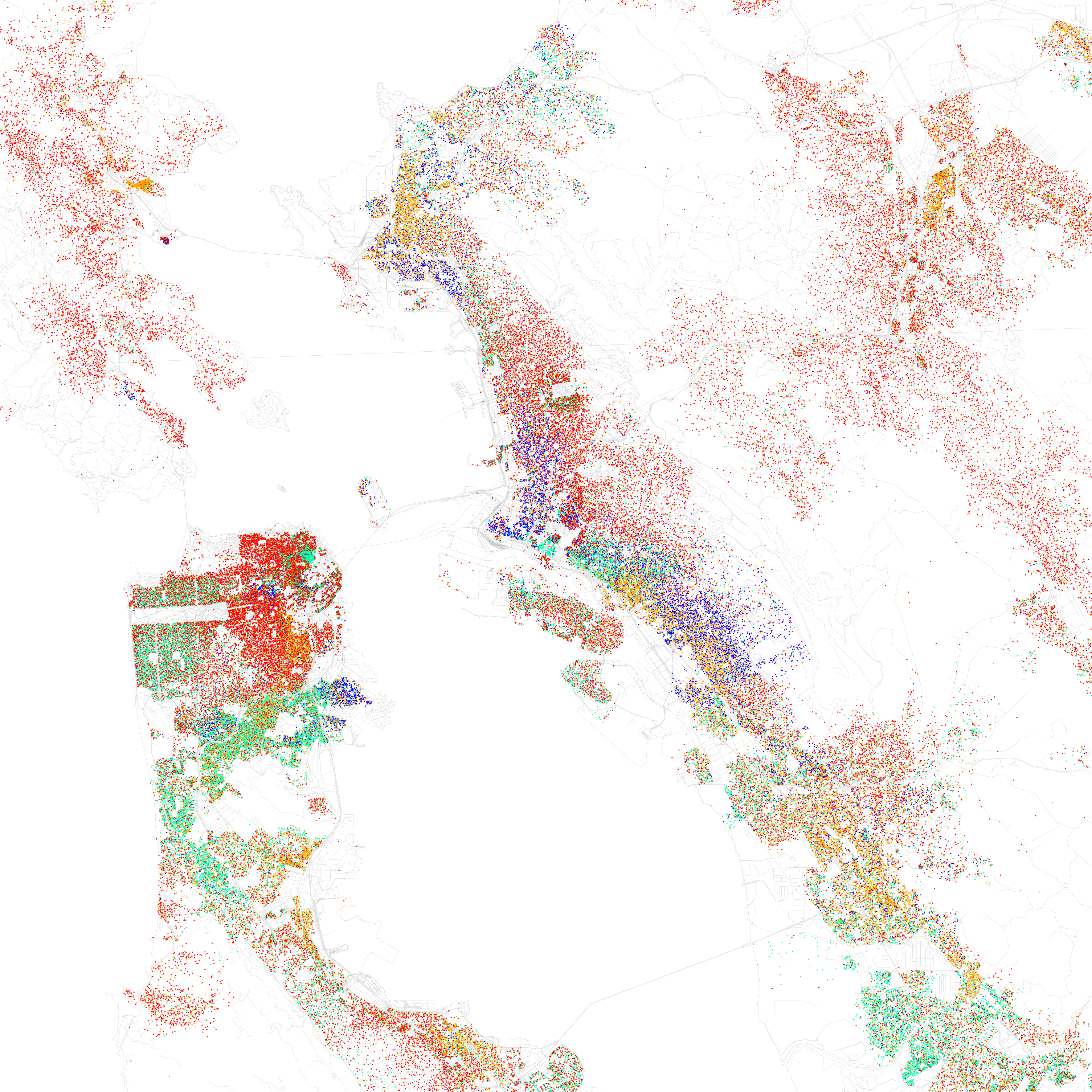 Maps of racial and ethnic divisions in US cities, inspired by Bill Rankin's map of Chicago, updated for Census 2010. Red is White, Blue is Black, Green is Asian, Orange is Hispanic, Yellow is Other, and each dot is 25 residents. Data from Census 2010. Base map © OpenStreetMap, CC-BY-SA